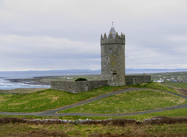 Doonagore Castle in Doolin, County Clare, Republic of Ireland.